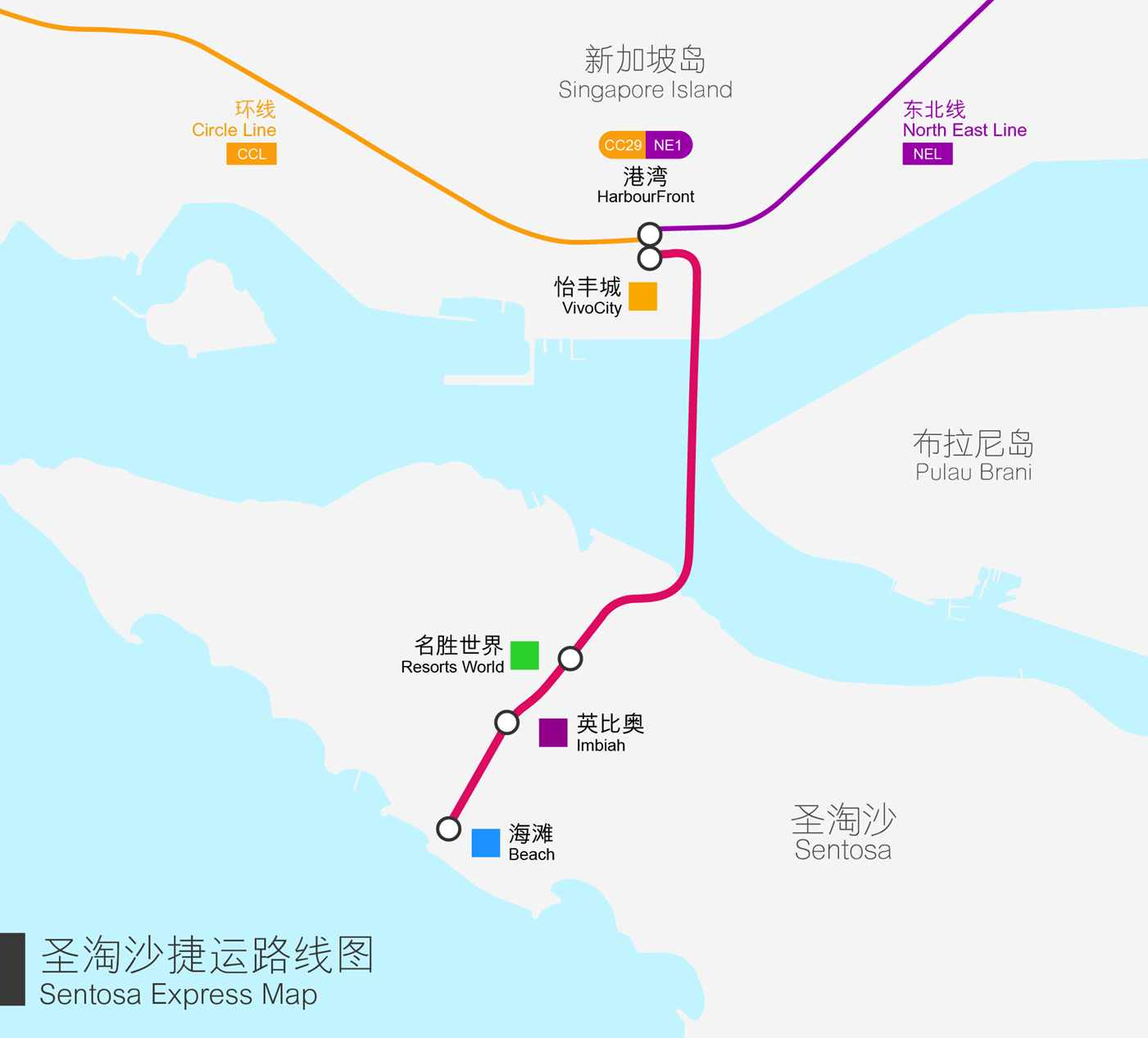 Sentosa Express Route Map